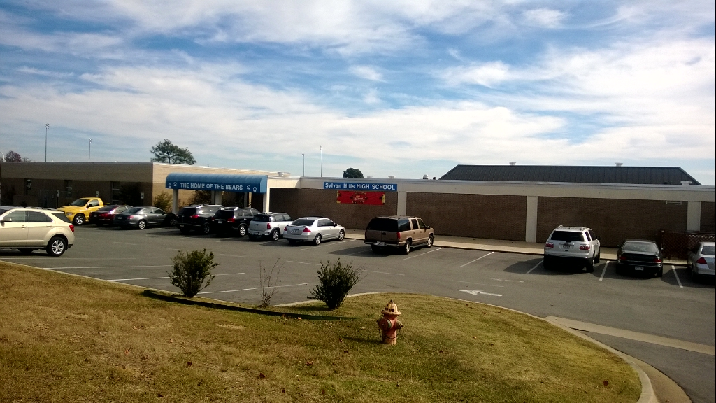 Exterior view to the main entrance of Sylvan Hills High School